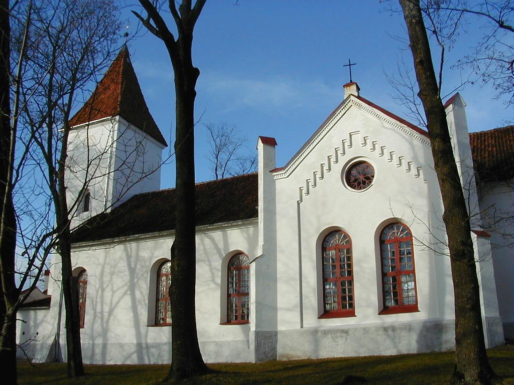 Talsi Evangelical Lutheran Church